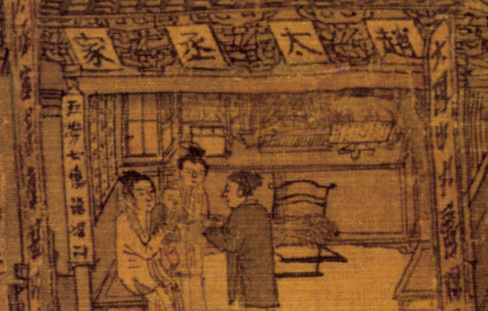 Zhao Tai Cheng herbal store in painting:Along the River During the Qingming Festival